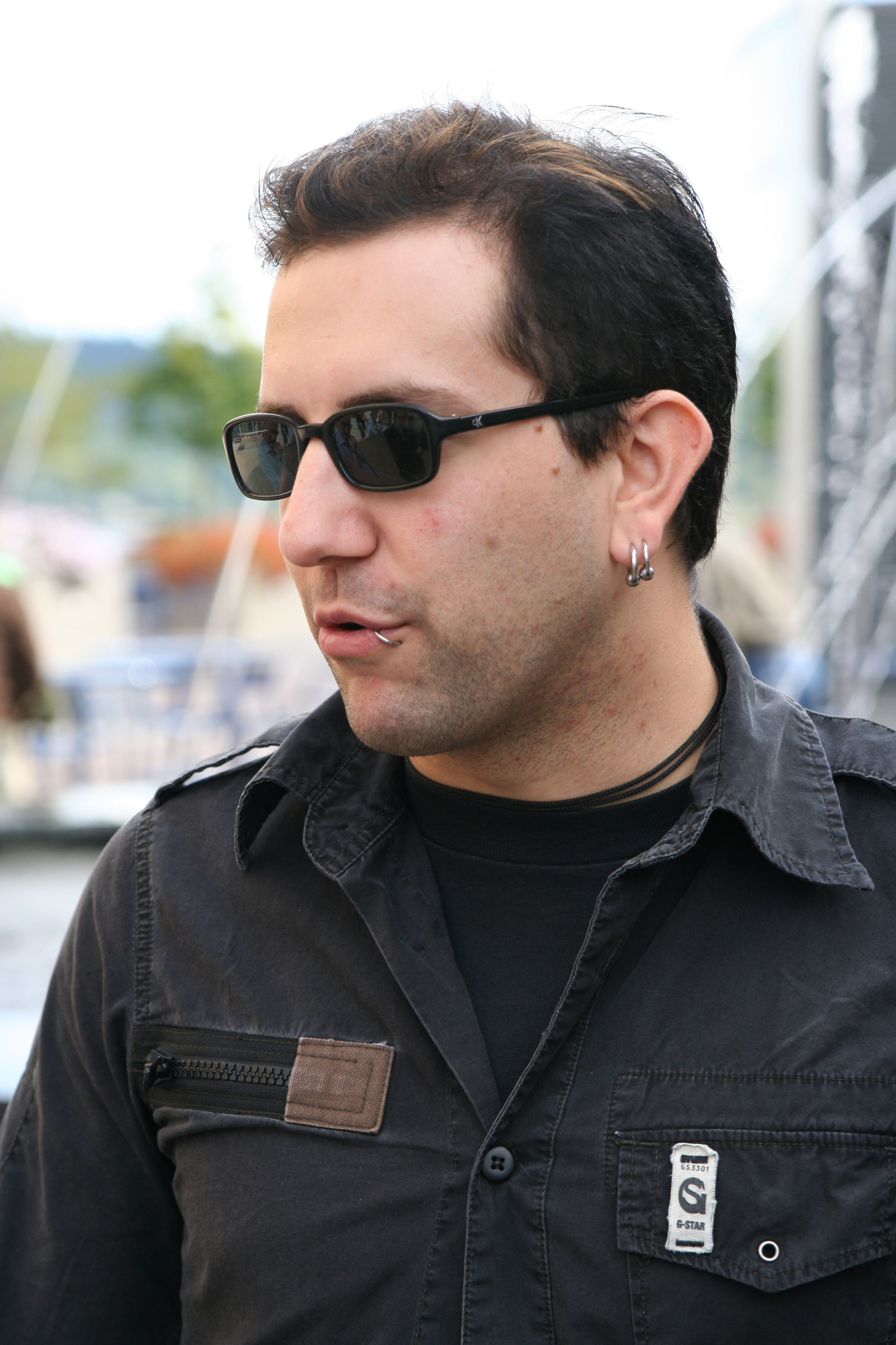 Picture of Tom Wisniewski I took on September 16th, 2006.